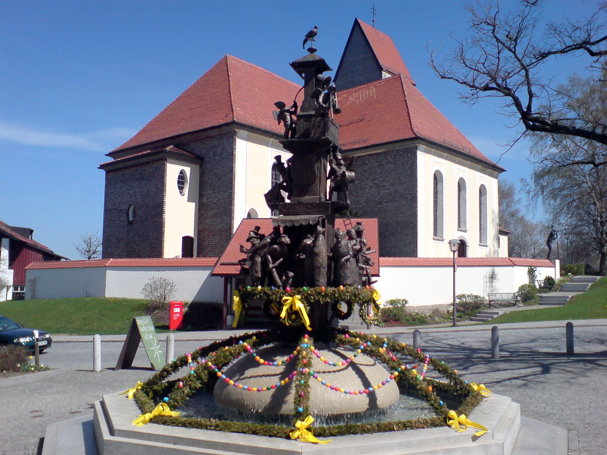 well at the marketplace of the municipality Wiggensbach (Swabia), garnished with easter-decoration; the church in the background